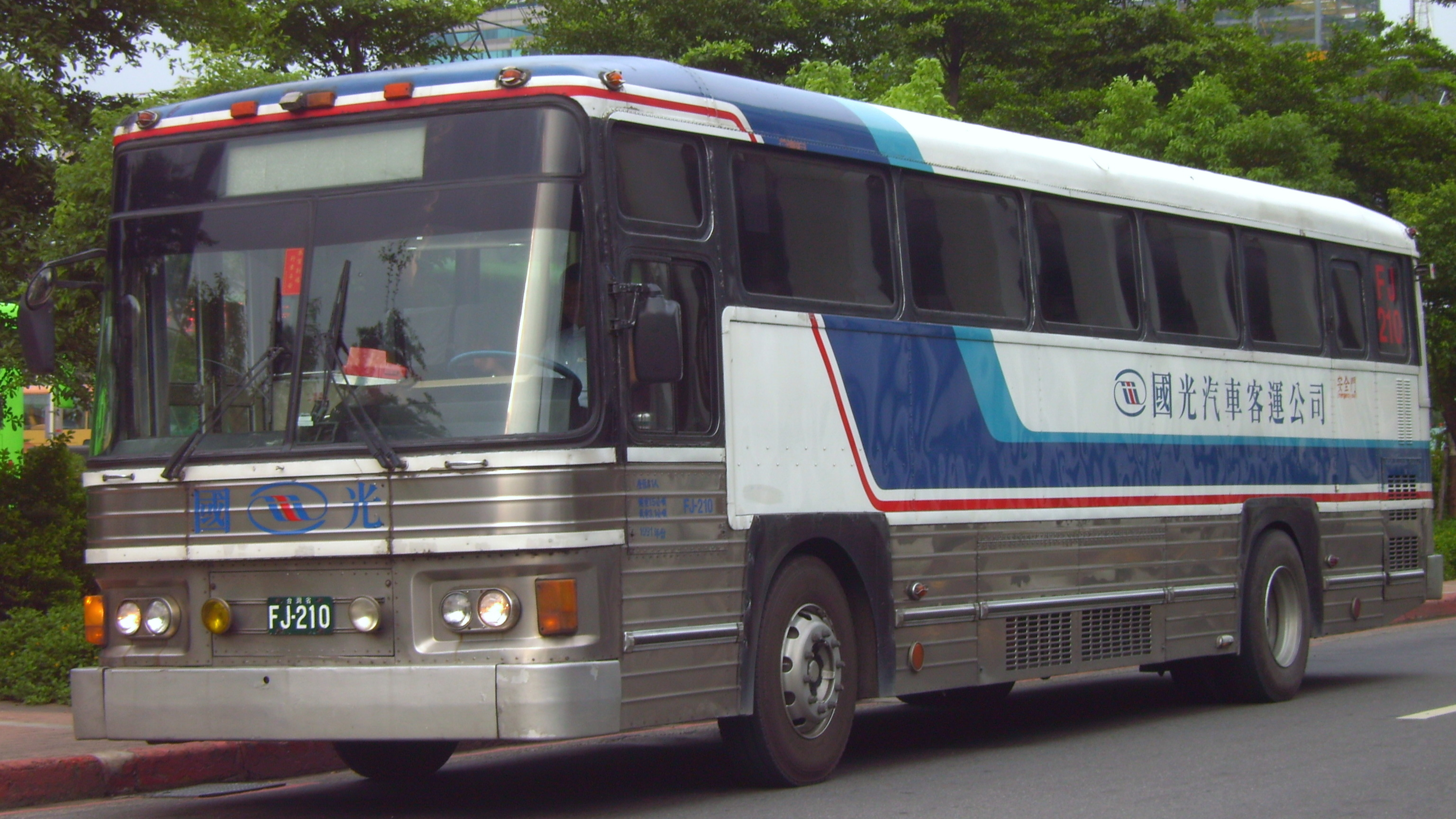 Kuo-kwang Bus (Taiwan) operated freeway bus line rarely with Benz OH1625 bus.